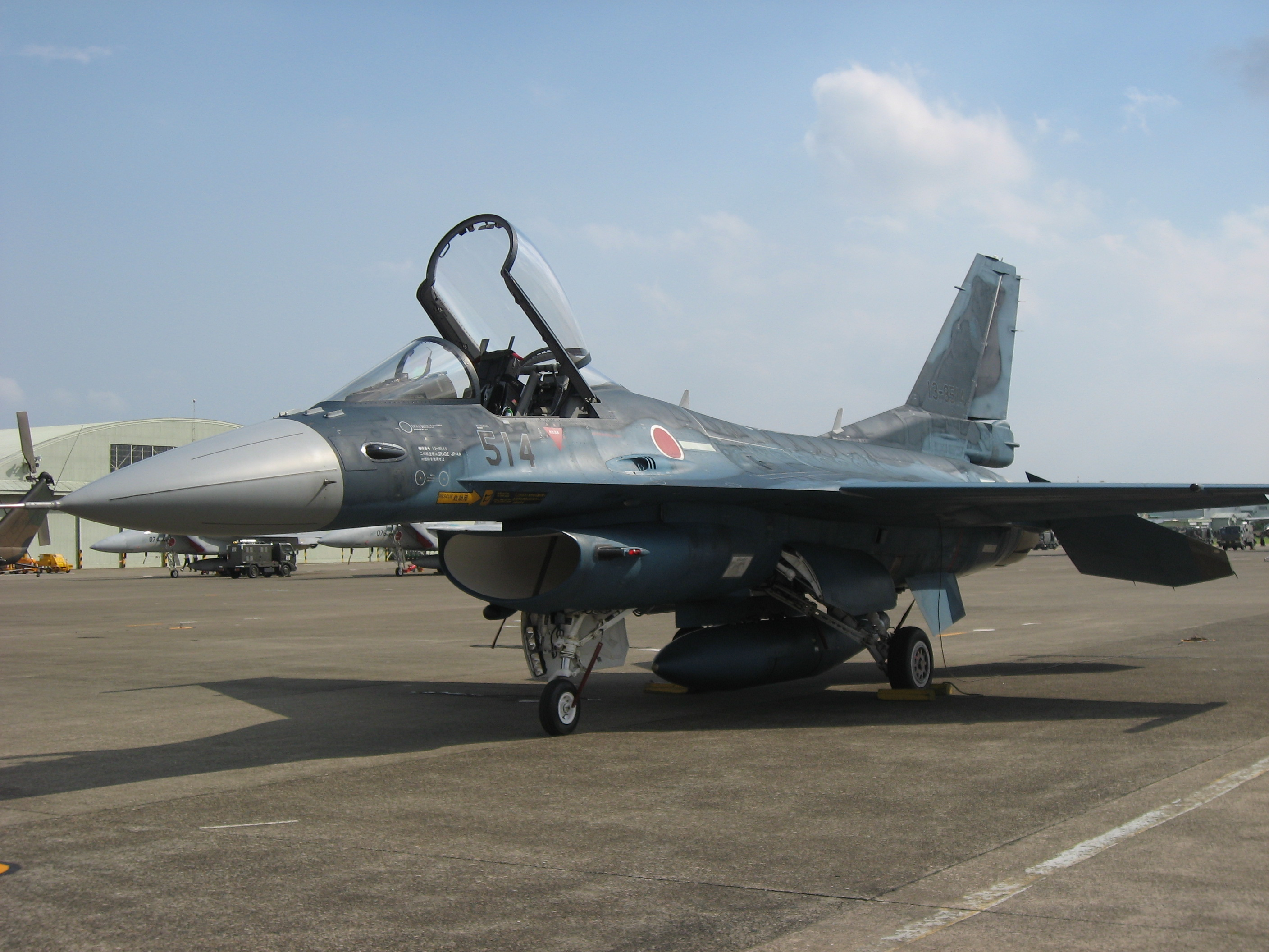 F-2A (514) of 3 Sqn on static display at Hyakuri Air Base Open Day 2007.Canon Digital IXUS 800 IS